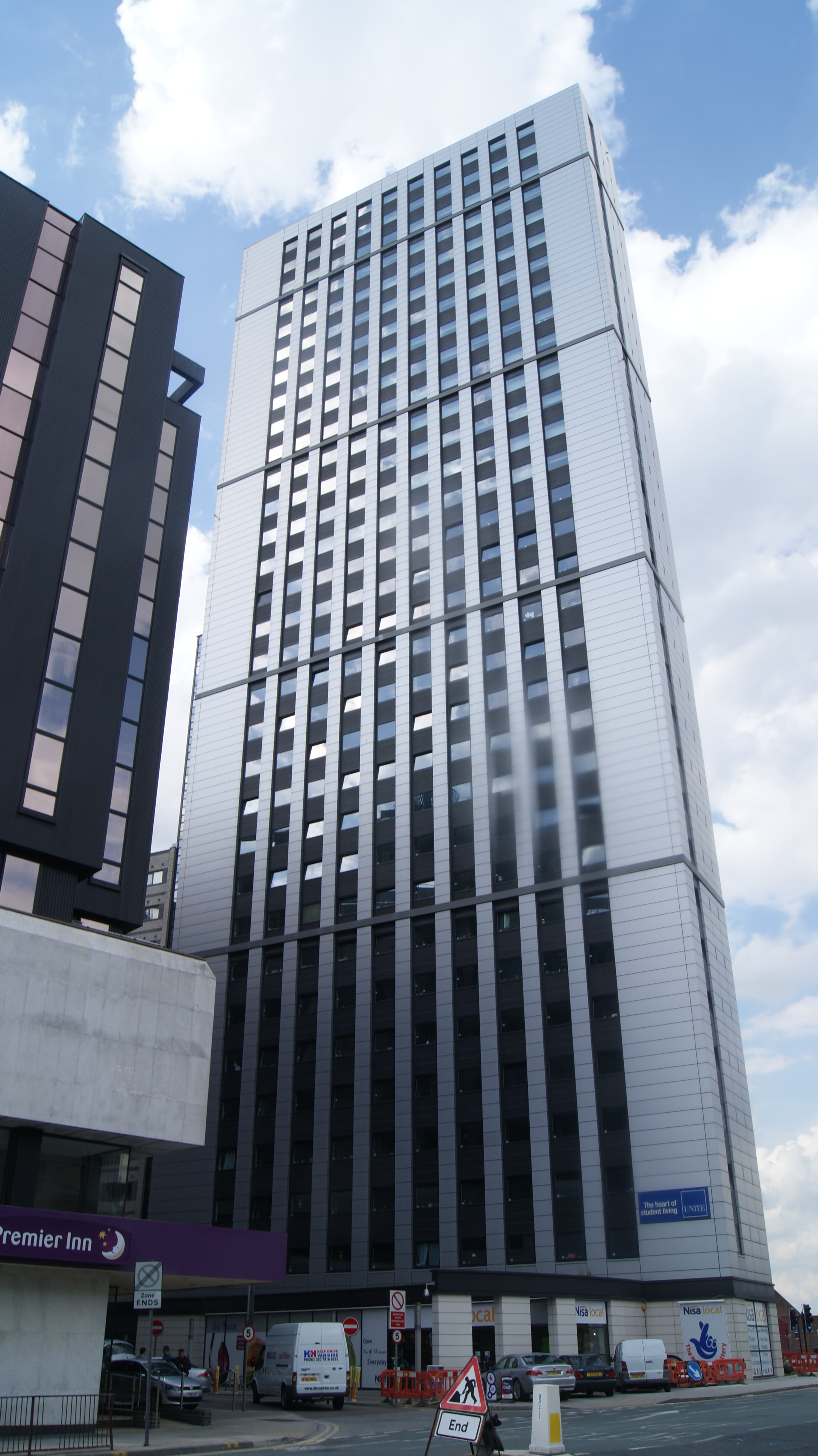 Sky Plaza as seen from Claypit Lane in Leeds, West Yorkshire. Taken on the afternoon of Wednesday the 20th of June 2012.